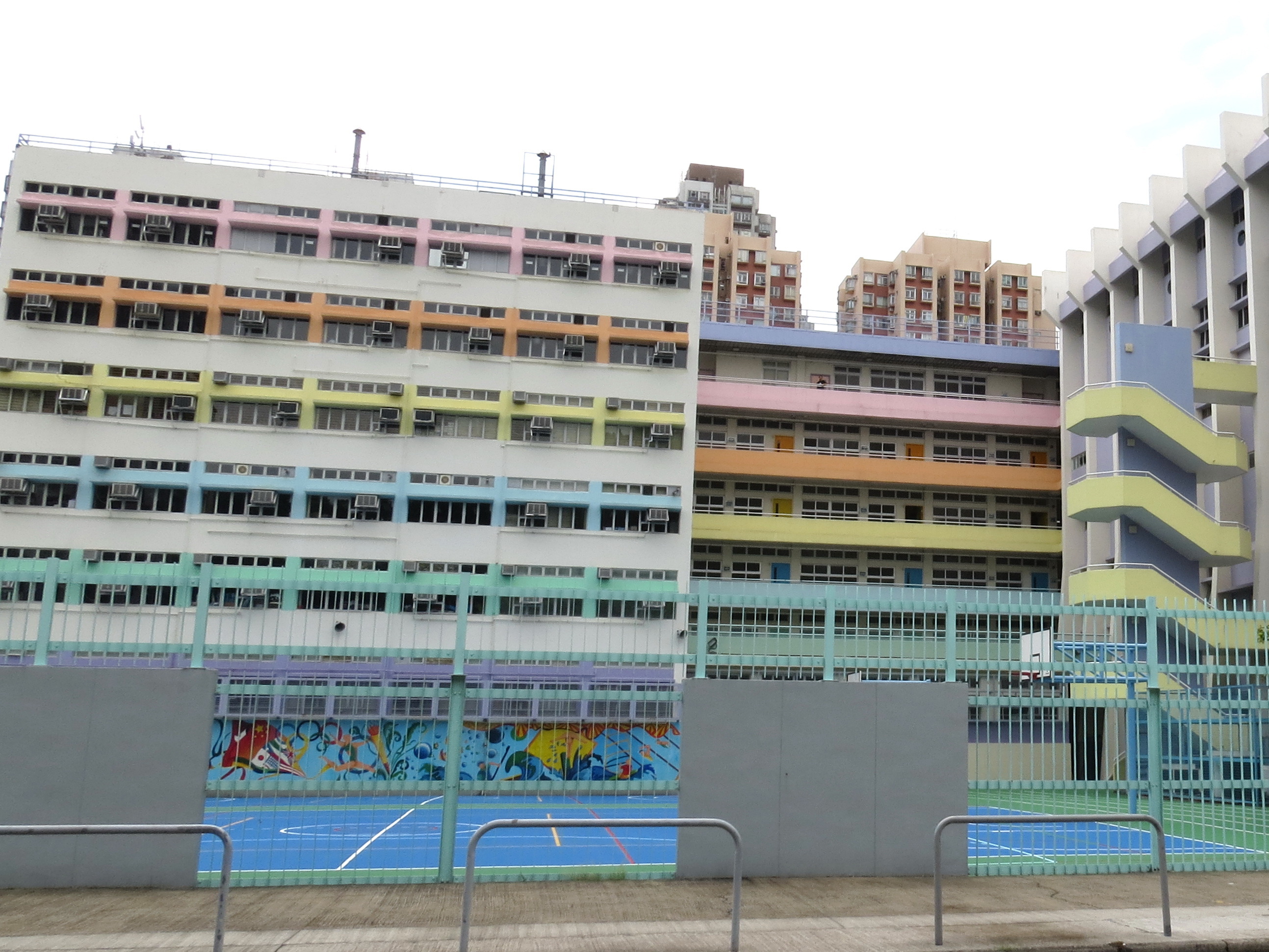 Toi Shan Association College, Sha Tin, New Territories, Hong Kong.